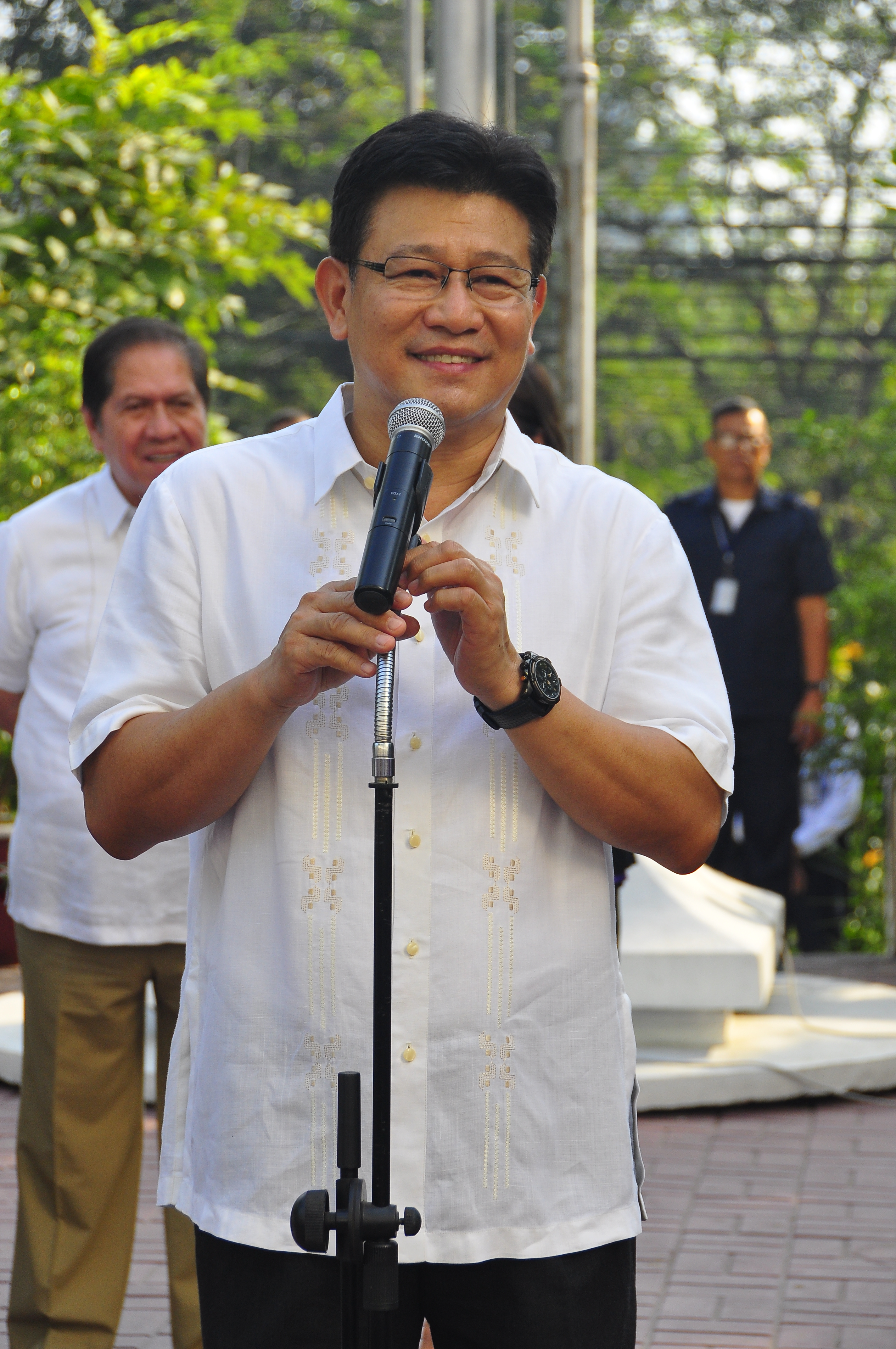 DENR Secretary Paje gives his message during the 2016 DENR Women's Month celebration. In his message, Secretary Paje greeted the women of DENR “happy women’s month” and greeted the men “happy women’s day” explaining that for the men, everyday is women’s day.